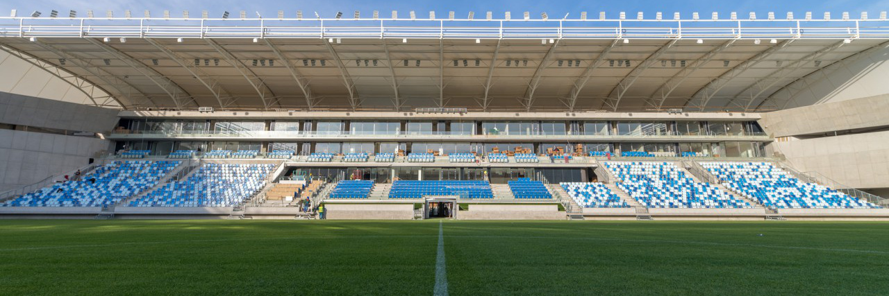 The main stand of the Hidegkuti Stadion located in the eighth district of Budapest.